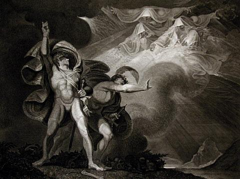 Macbeth, Act I, scene iii. "Drawn to the theme of man's confrontation with his destiny, Fuseli made several illustrations of scenes in Macbeth while living in Rome between 1770-78. To eighteenth- century sensibilities, Macbeth's encounters with the witches when as an individual he is forced to confront his tragic destiny, was the most Sublime of subjects. Fuseli refrains from depicting them as grotesques, unlike Salvator Rosa or Runciman. Instead he relies on dramatic gesture, movement and lighting effects to convey a sense of the supernatural. (Monsters and Maidens, 2004)" (From source)